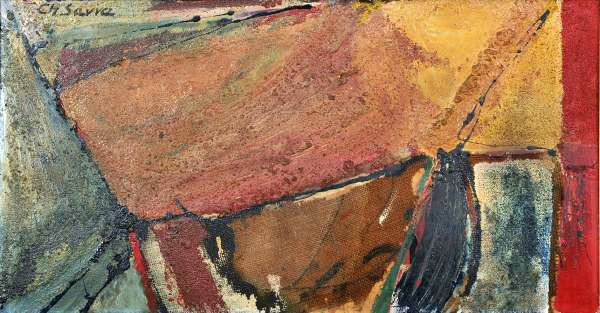 Leventis Gallery, Nicosia, Cyprus. Christoforos Savva - The Bird of Mesarka (1962). Mixed media on wood.